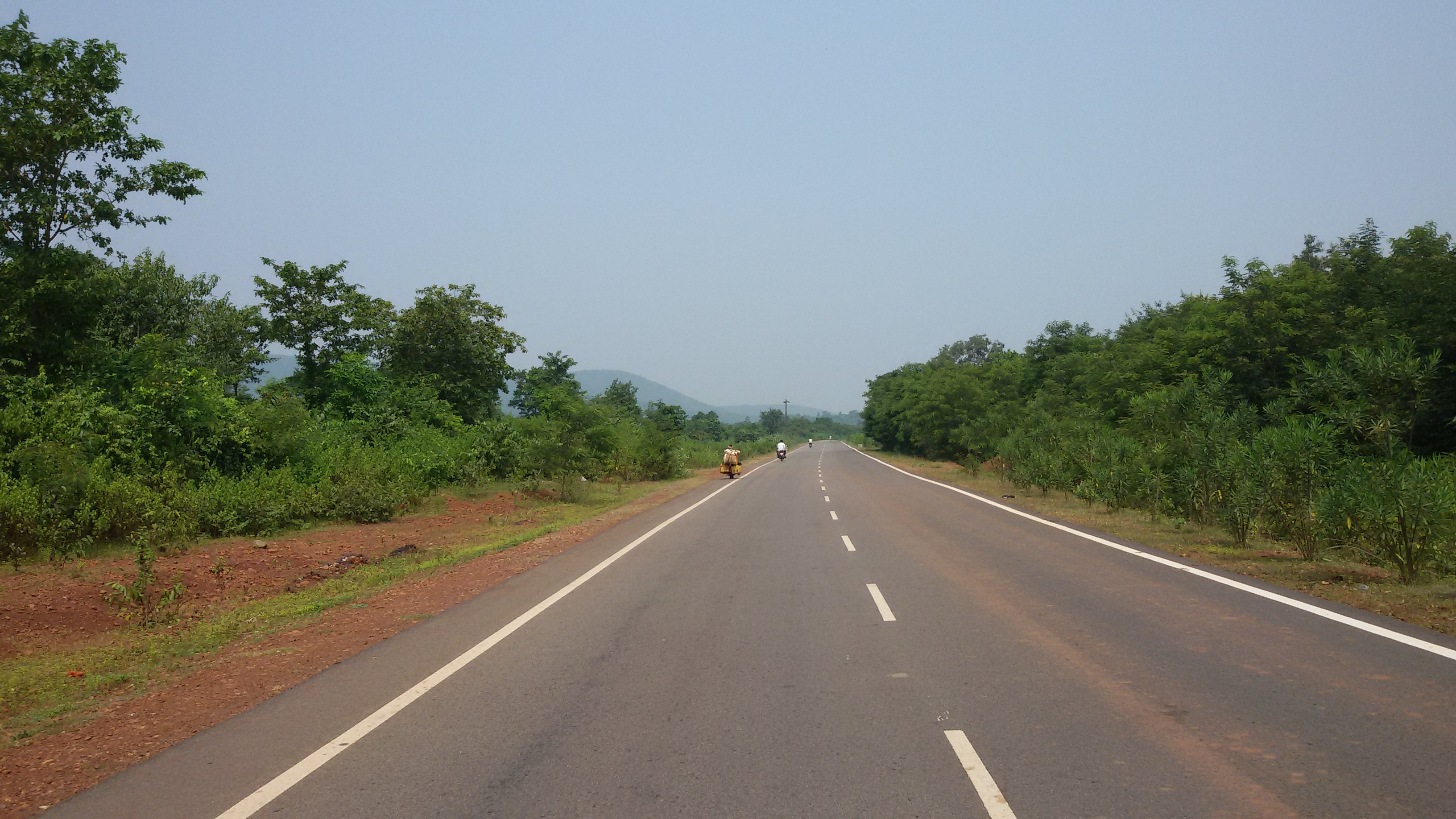 Tomka Forest Block, Odisha, India: NH 720 near Baliapal